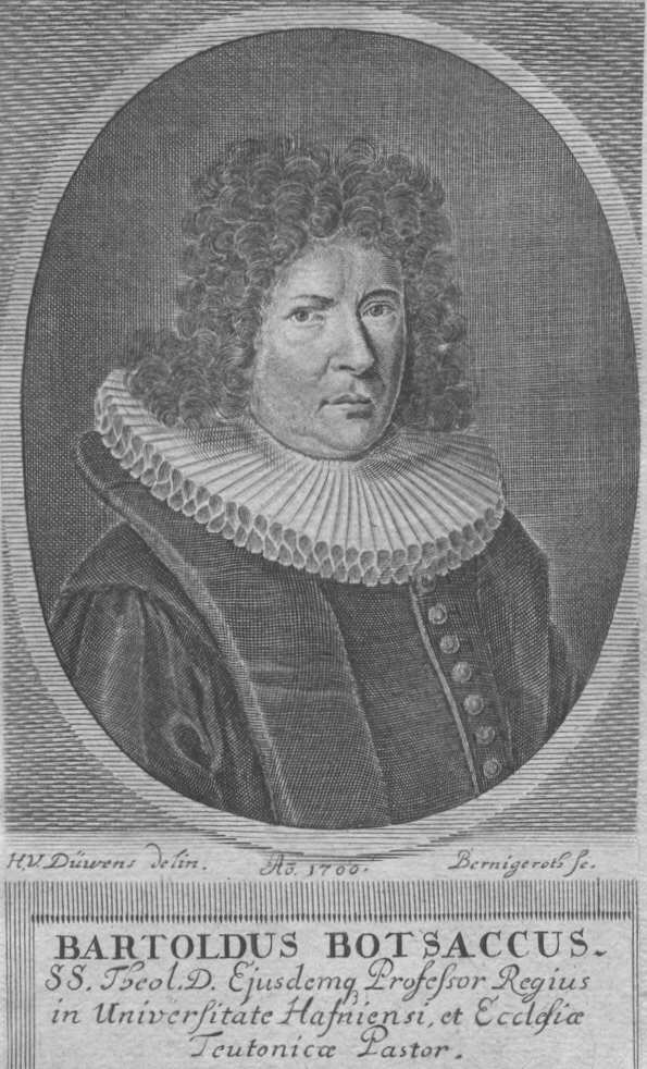 Portrait of Bartholomäus Botsack, copper engraving, image: 152x90 mm, originally frontispiece in his: Commonitorium triplex evangelicum, epistolicum, catecheticum, de fugiendo papismo. 1702